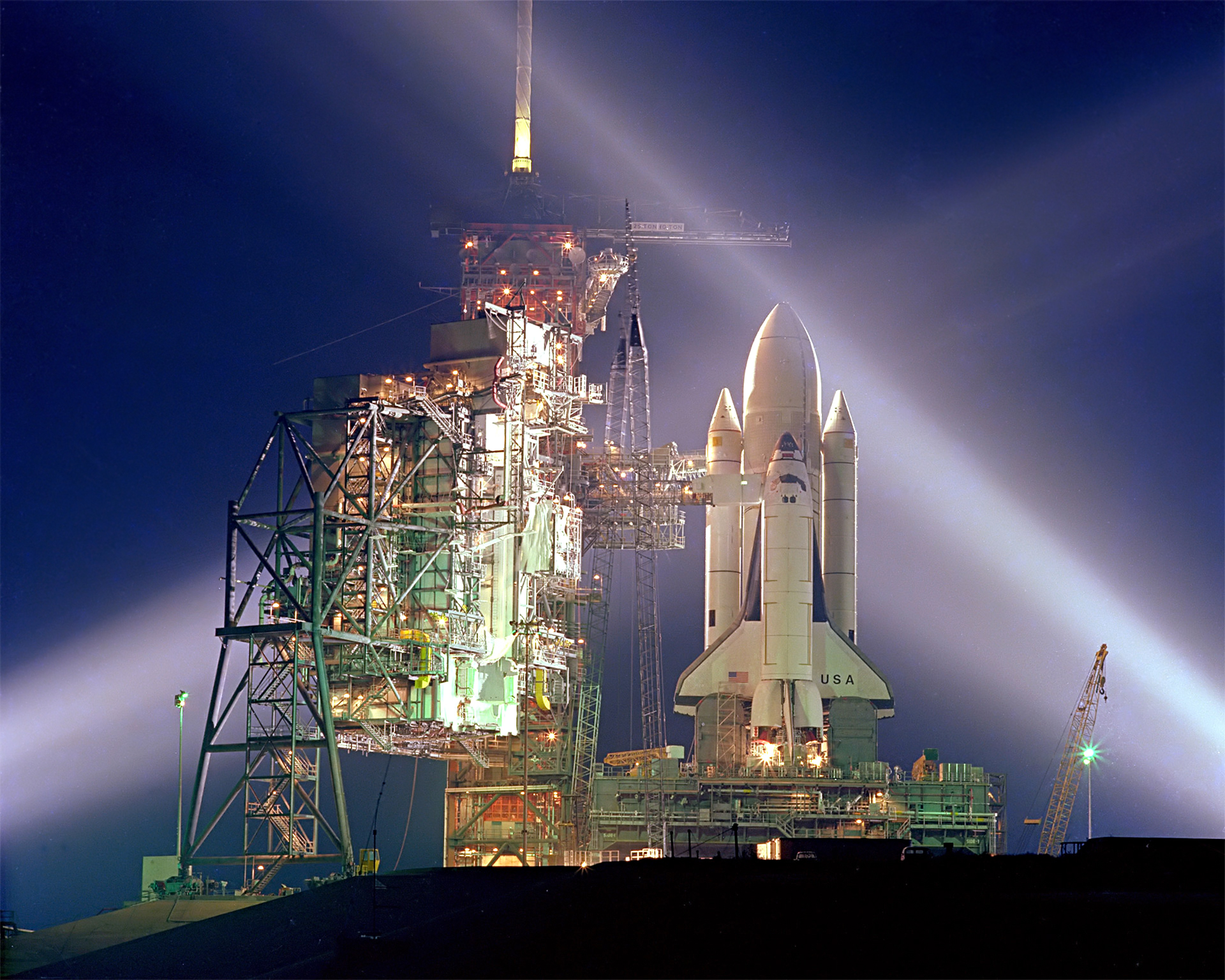 A timed exposure of the first Space Shuttle mission, STS-1, at Launch Pad A, Complex 39, turns the space vehicle and support facilities into a night-time fantasy of light. To the left of the Shuttle are the fixed and the rotating service structures.